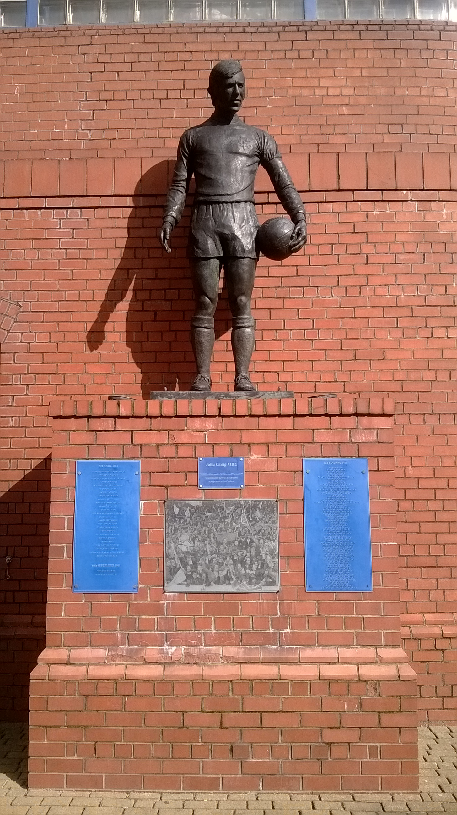 John Greig statue in remembrance of the victims of the Ibrox disaster.